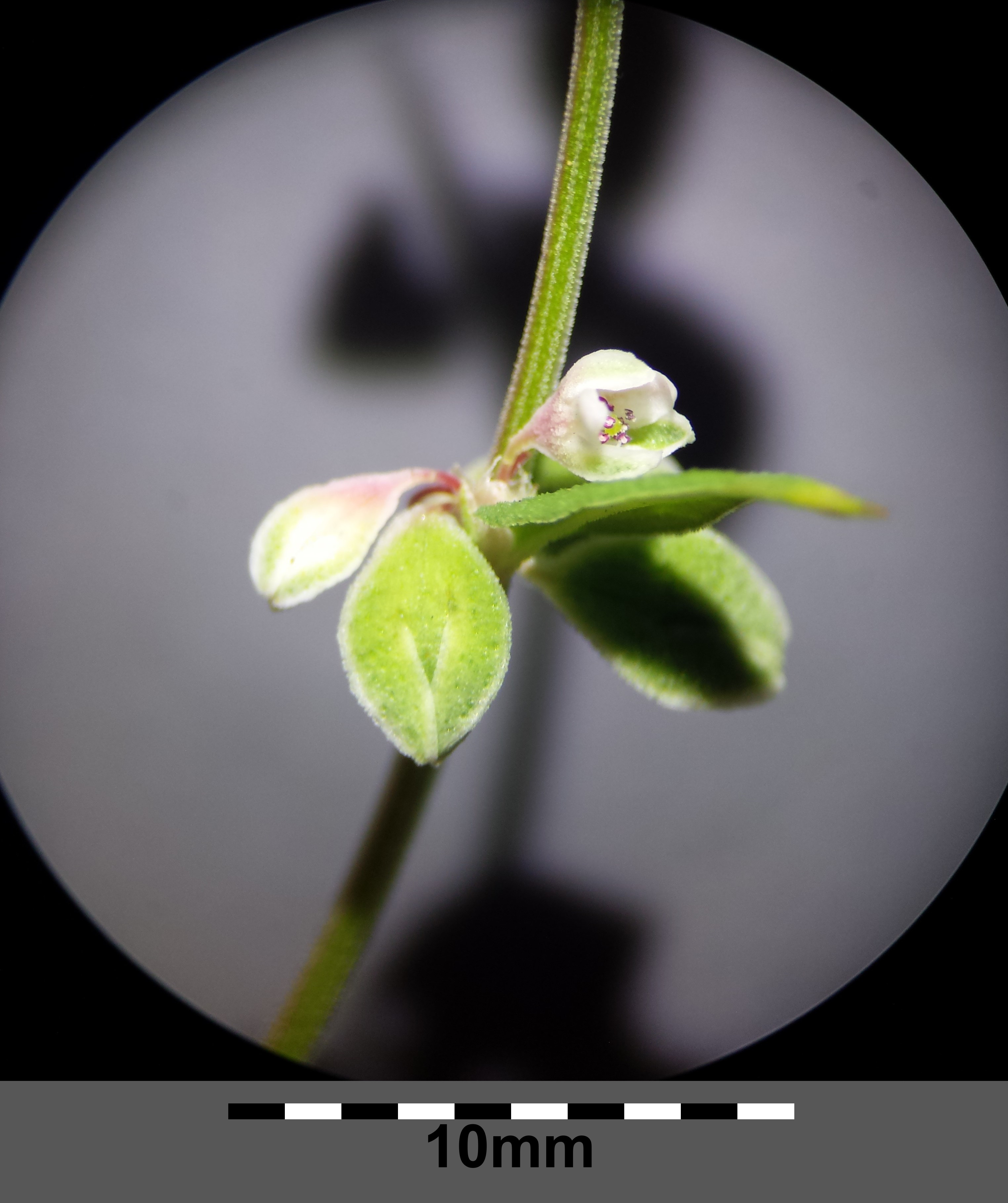 Flower/fruits Taxonym: Fallopia convolvulus ss Fischer et al. EfÖLS 2008 ISBN 978-3-85474-187-9 Location: near Oberrohrbach, district Korneuburg, Lower Austria - ca. 200 m a.s.l. Habitat: fence